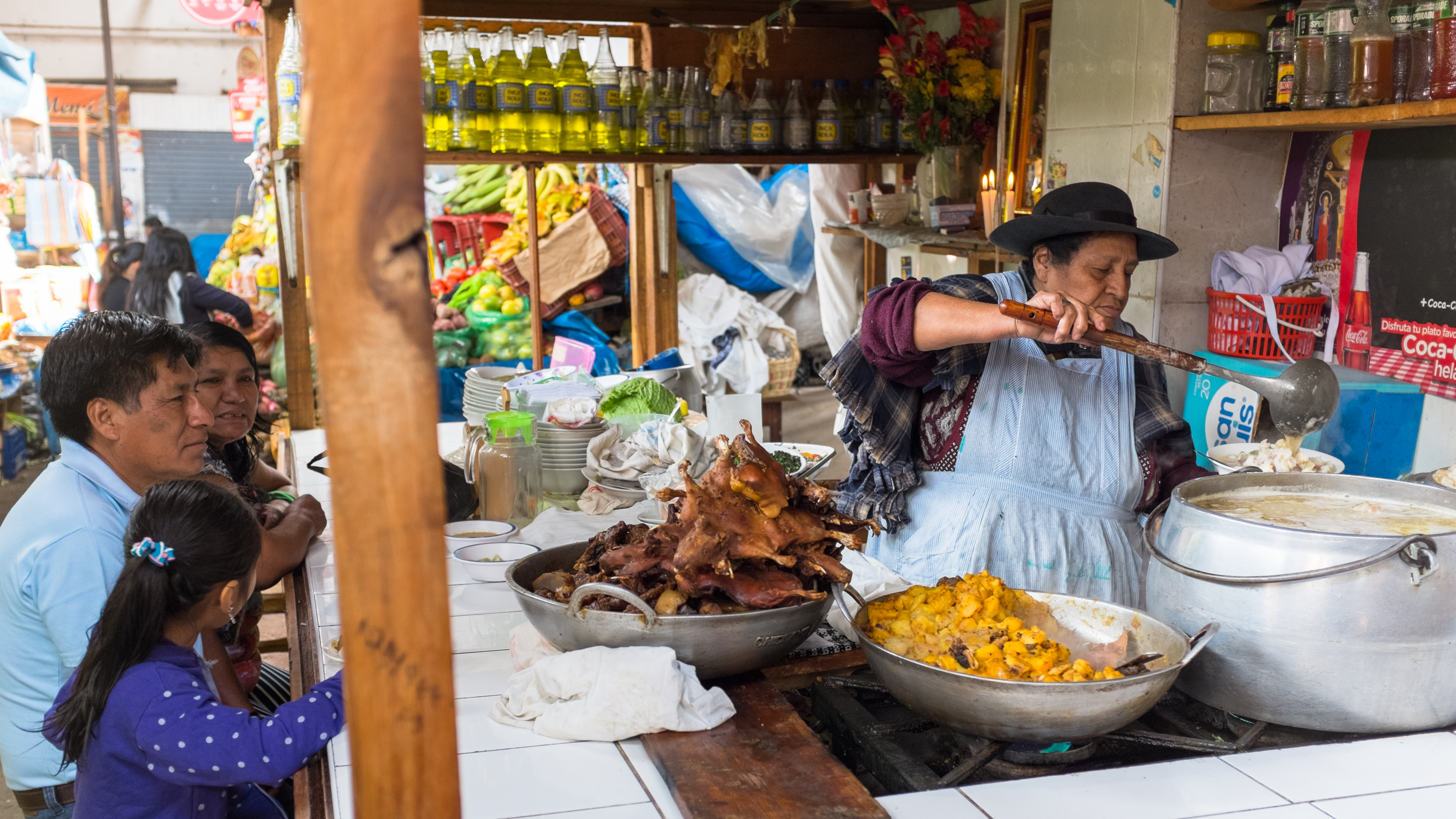 At the food market of Cajamarca, Peru, a family waits for its lunch to be served. This stand displays the local specialty: guinea pigs.